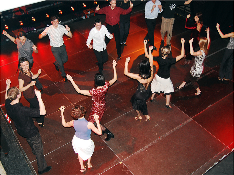 Dancing chcarera around midnight during the milonga in Montownia theater on Konopnicka 6 in Warsaw, Poland on November 30, 2007; i.e. on St. Andrew's Day.